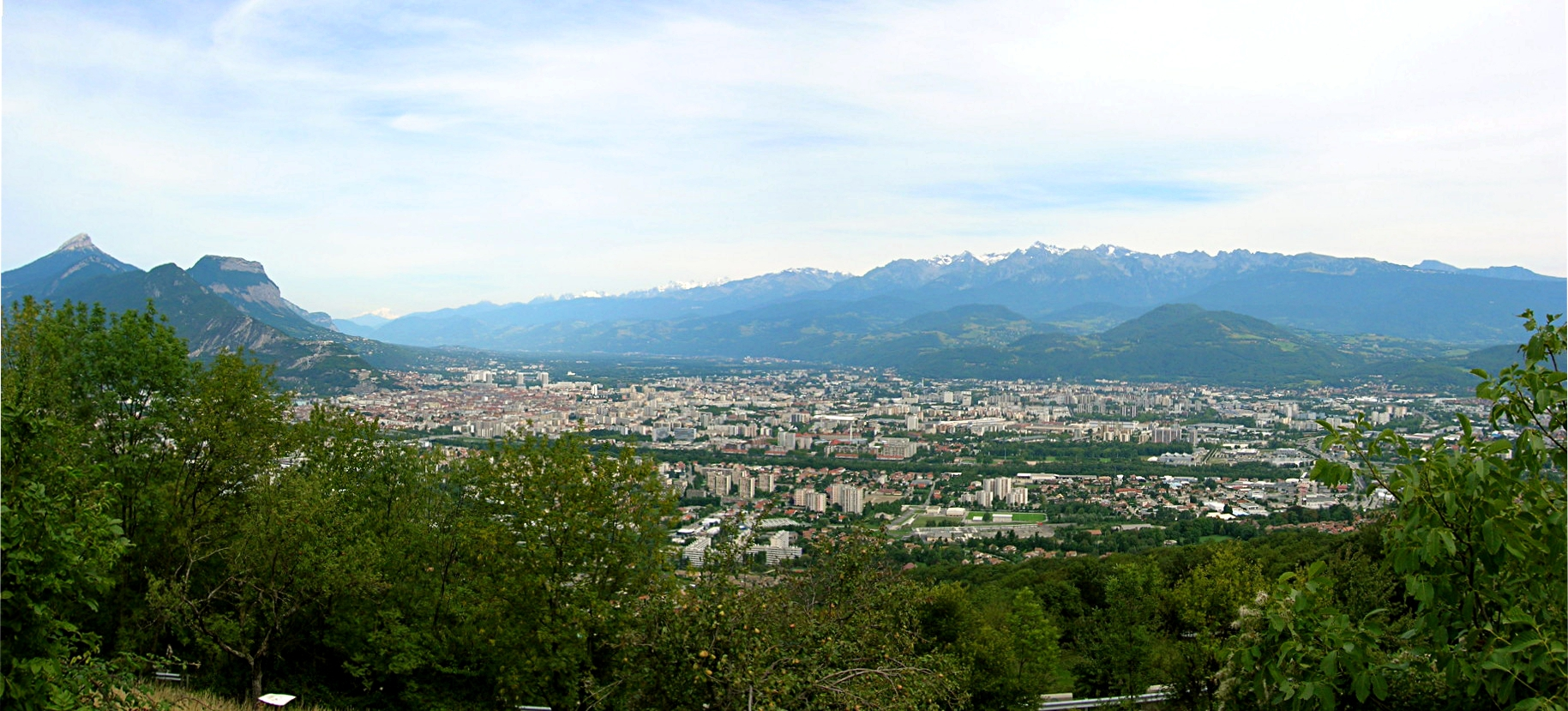 my own photograph